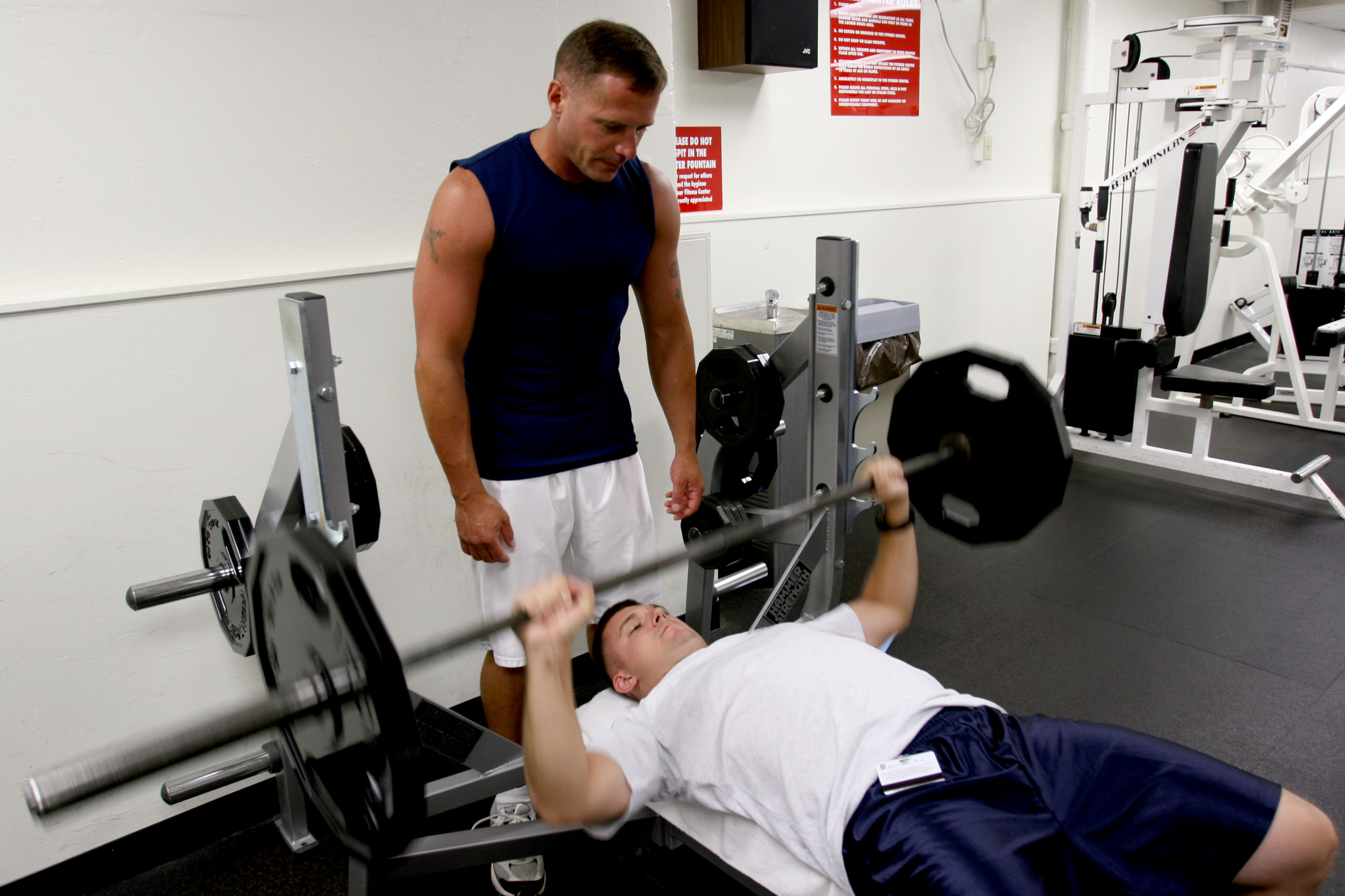 Staff Sgt. Brett Garmon, G-4 air staff noncommissioned officer, U.S. Marine Corps Forces, Pacific, utilizes the bench press and weights, while safely being spotted by Master Sgt. Bill Atwater, G-4 maintenance management chief, MARFORPAC at the Semper Fit Center.